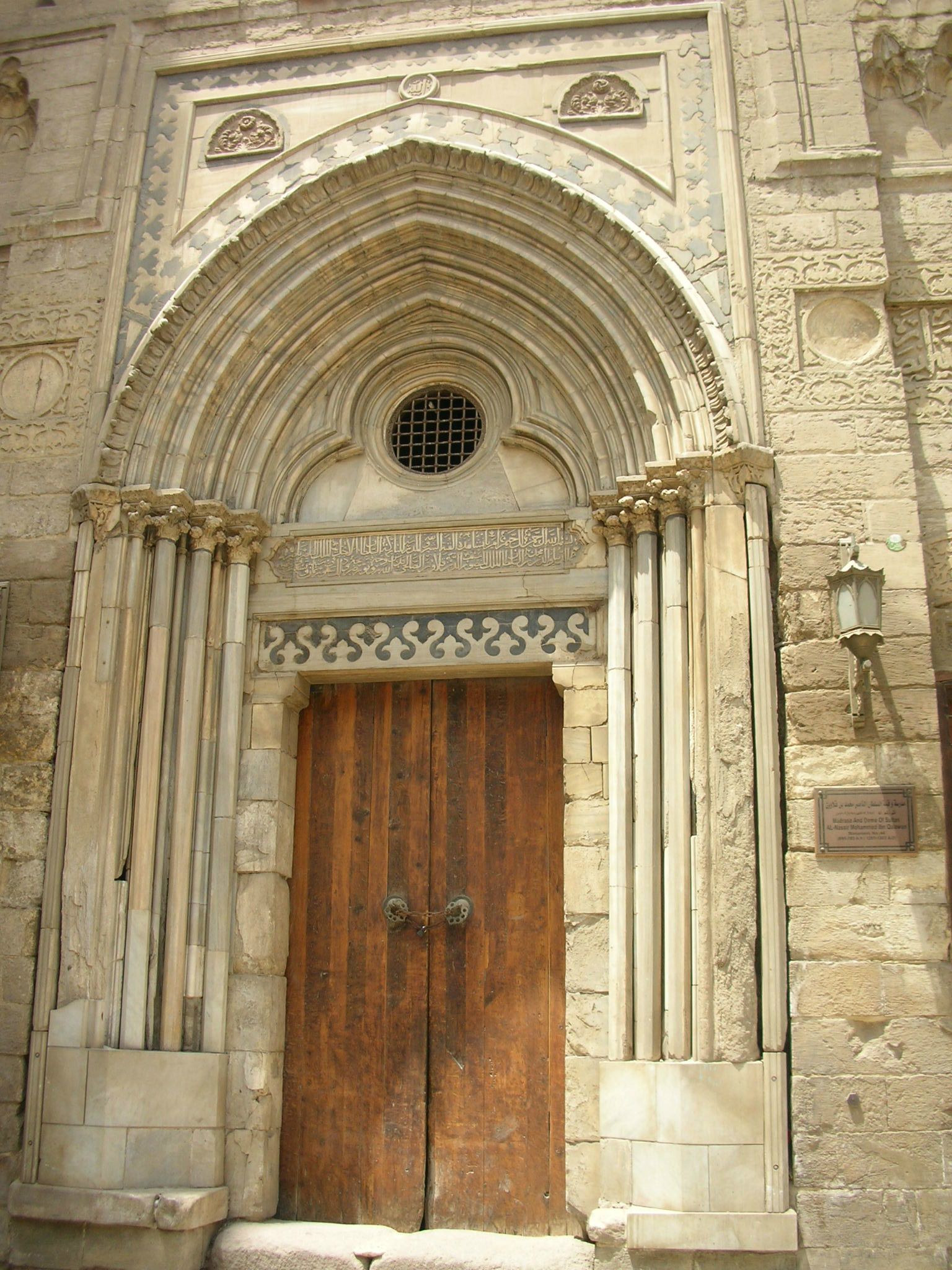 Historic Cairo (Egypt)